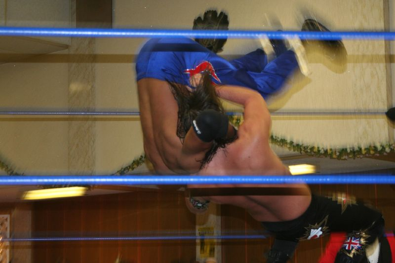 Professional wrestler Johnny Gargano performing a suplex on Marshe Rockett at a Chikara event